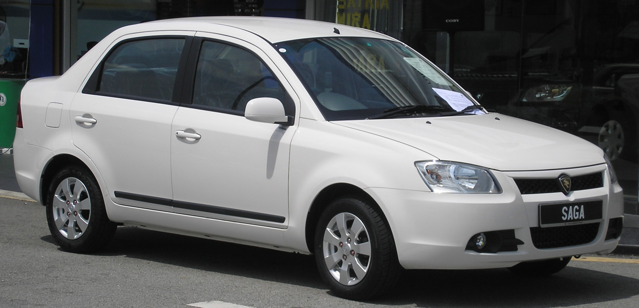 Front quarter view of a second generation Proton Saga (aka the Proton BLM), in Serdang, Selangor, Malaysia.